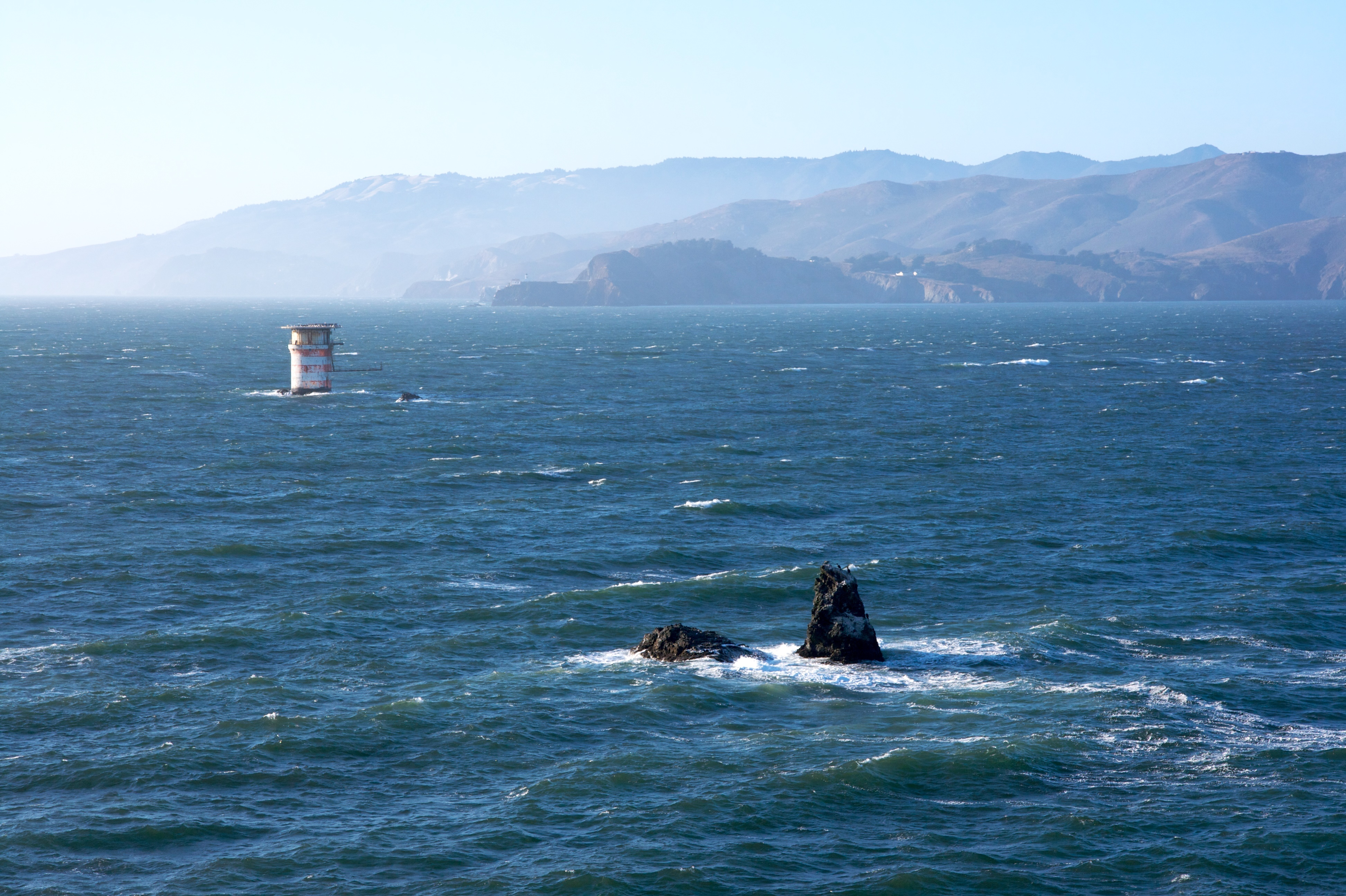 Mile Rocks lighthouse and the Golden Gate, looking north towards Marin County, California.